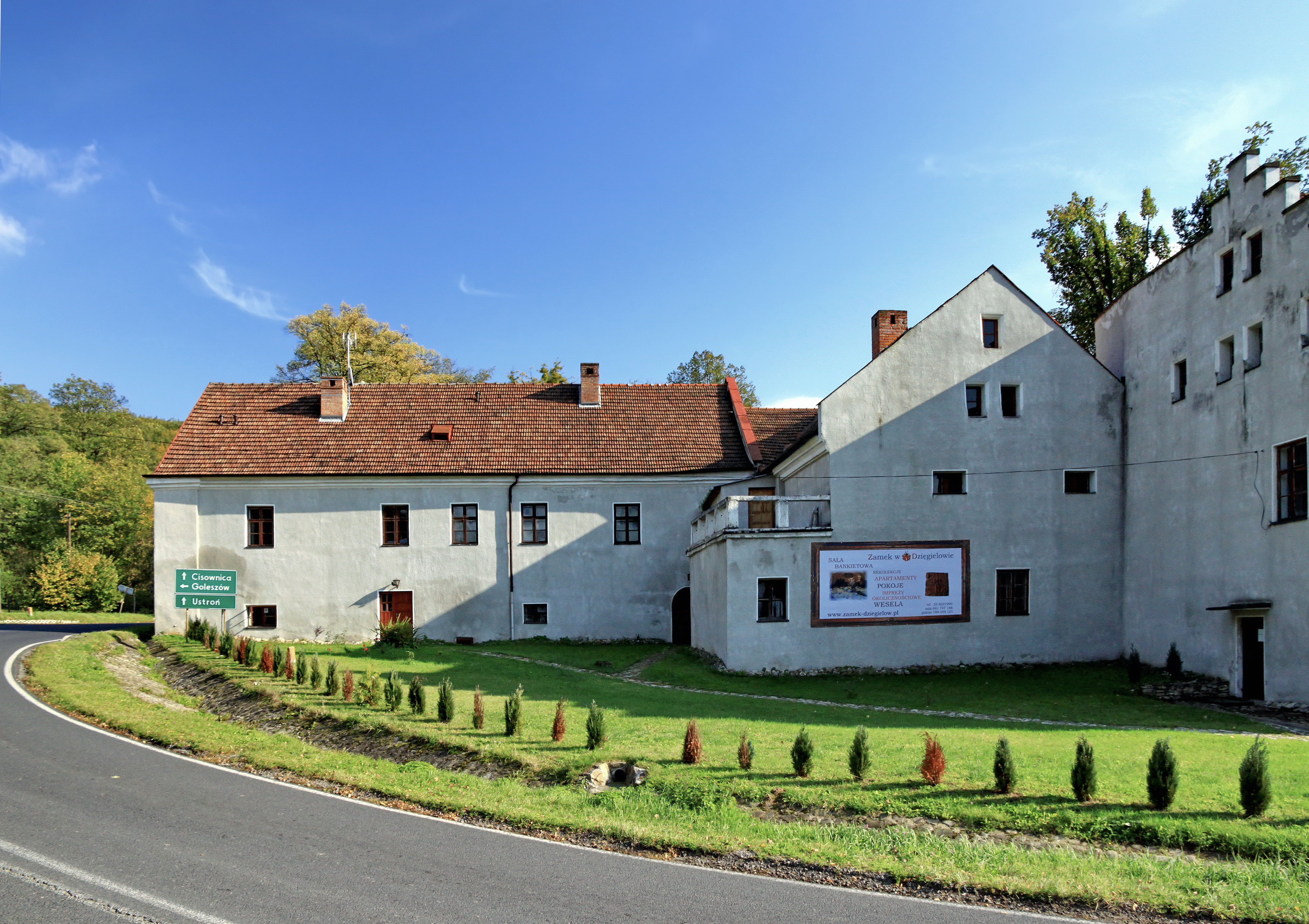 Dzięgielów, castle, build in 17th century